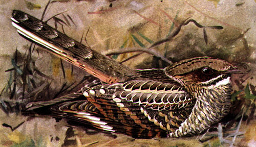 Pauraque, Nyctidromus albicollis, offset reproduction of watercolor